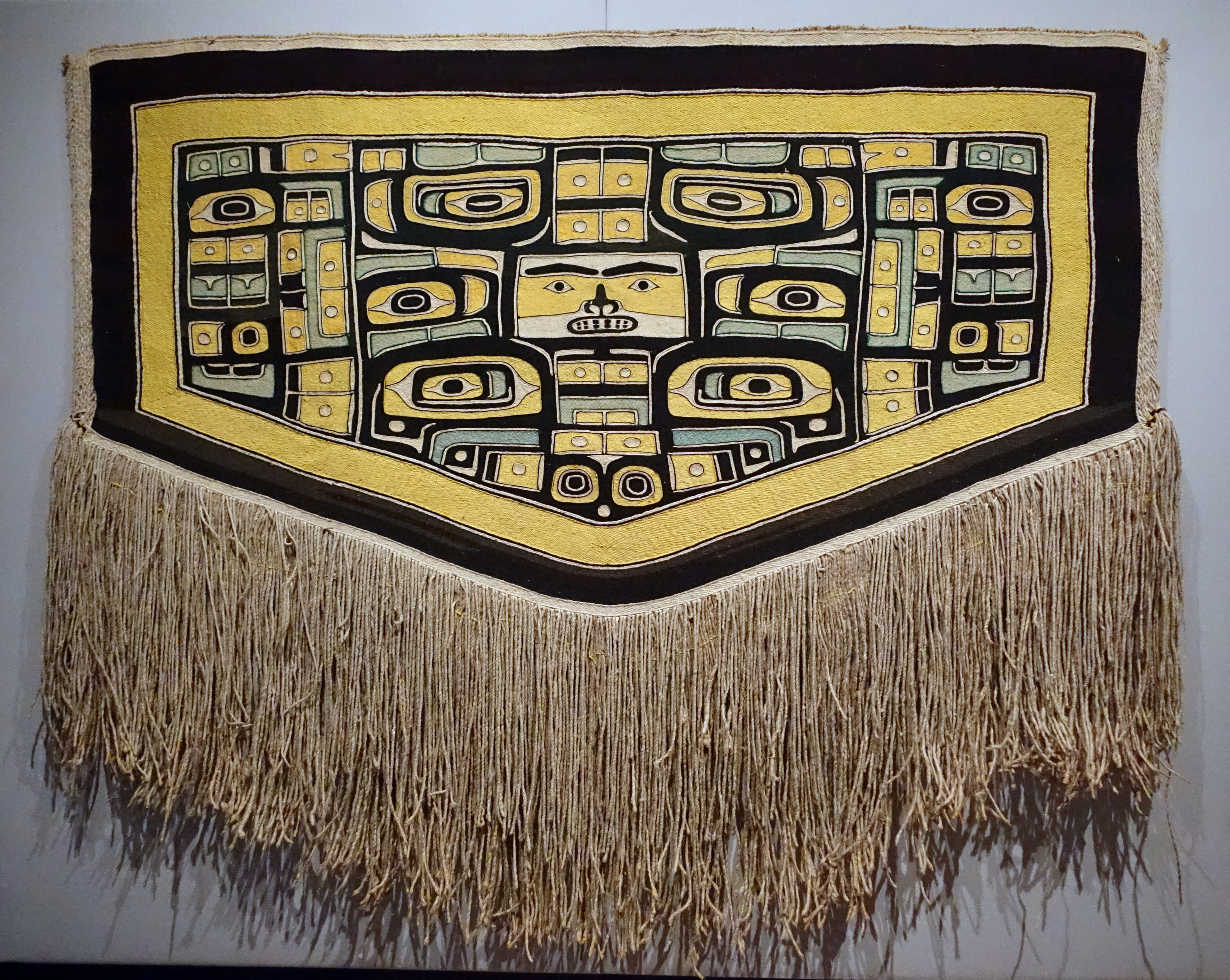 Exhibit in the Textile Museum, George Washington University, Washington, DC, USA. This work is old enough so that it is in the public domain.